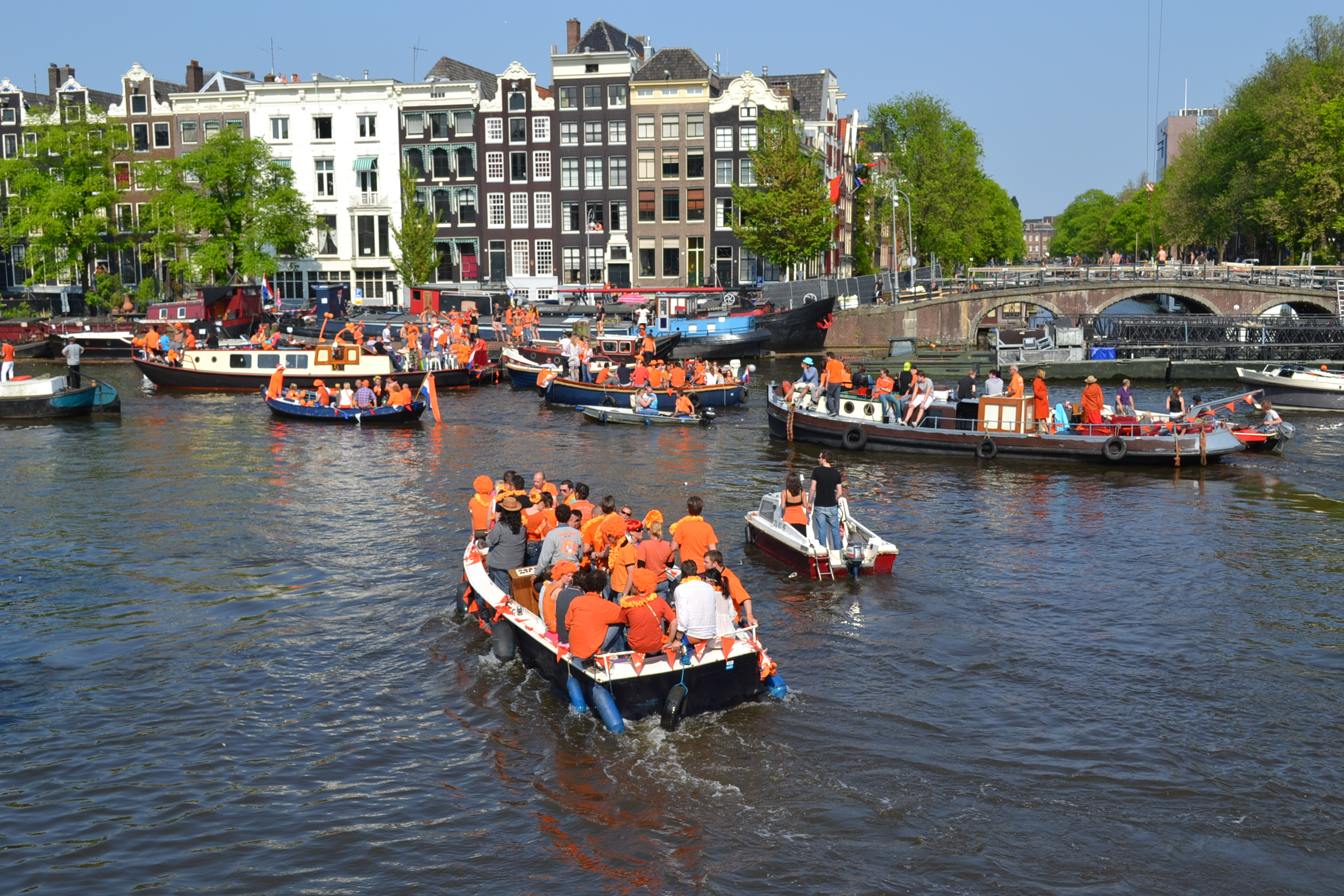 People in boats celebrating Queensday.